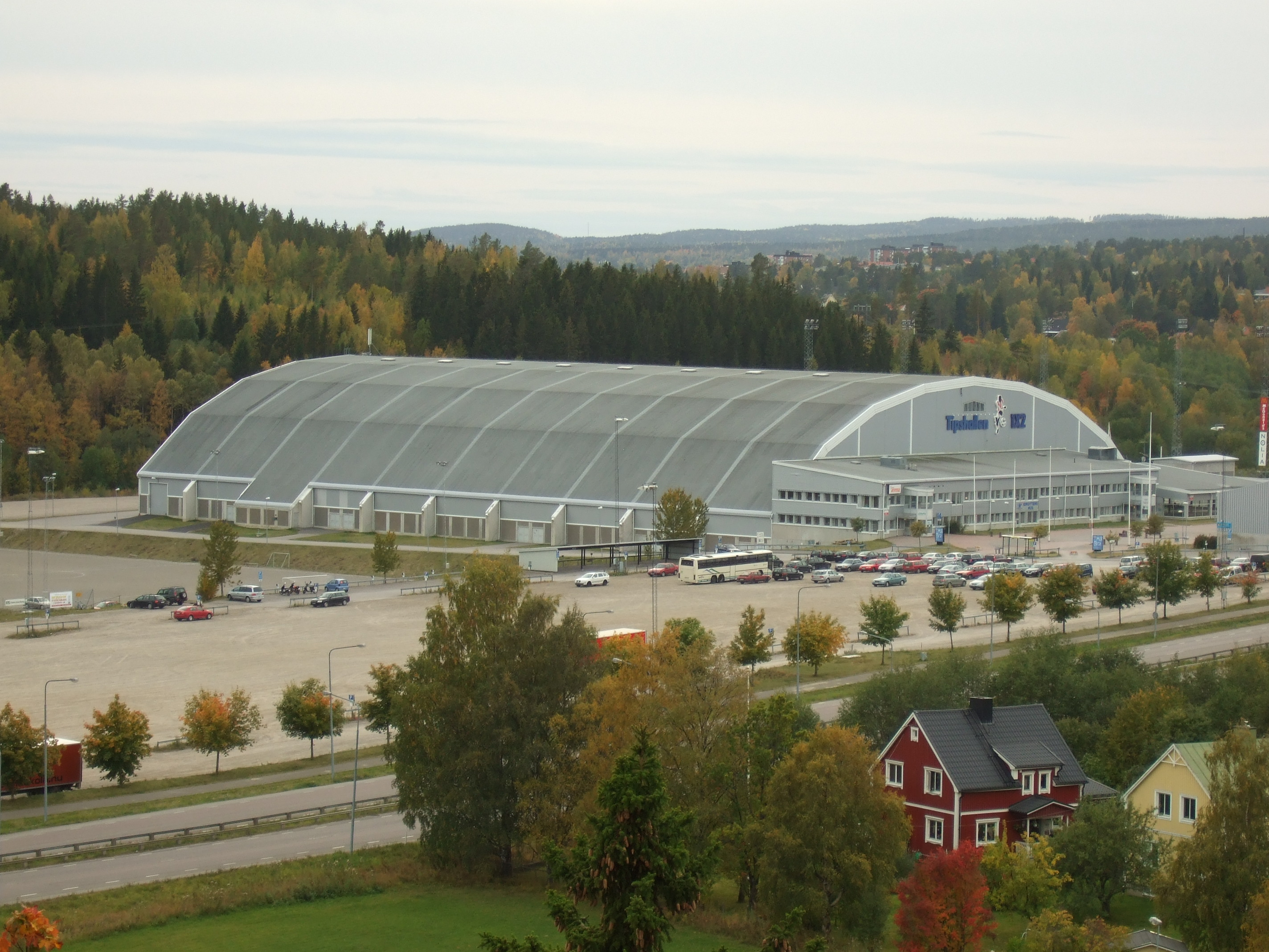 Nordichallen trade fair and indoor soccer arena at Gärdehov sports/fair centre, Sundsvall, Sweden